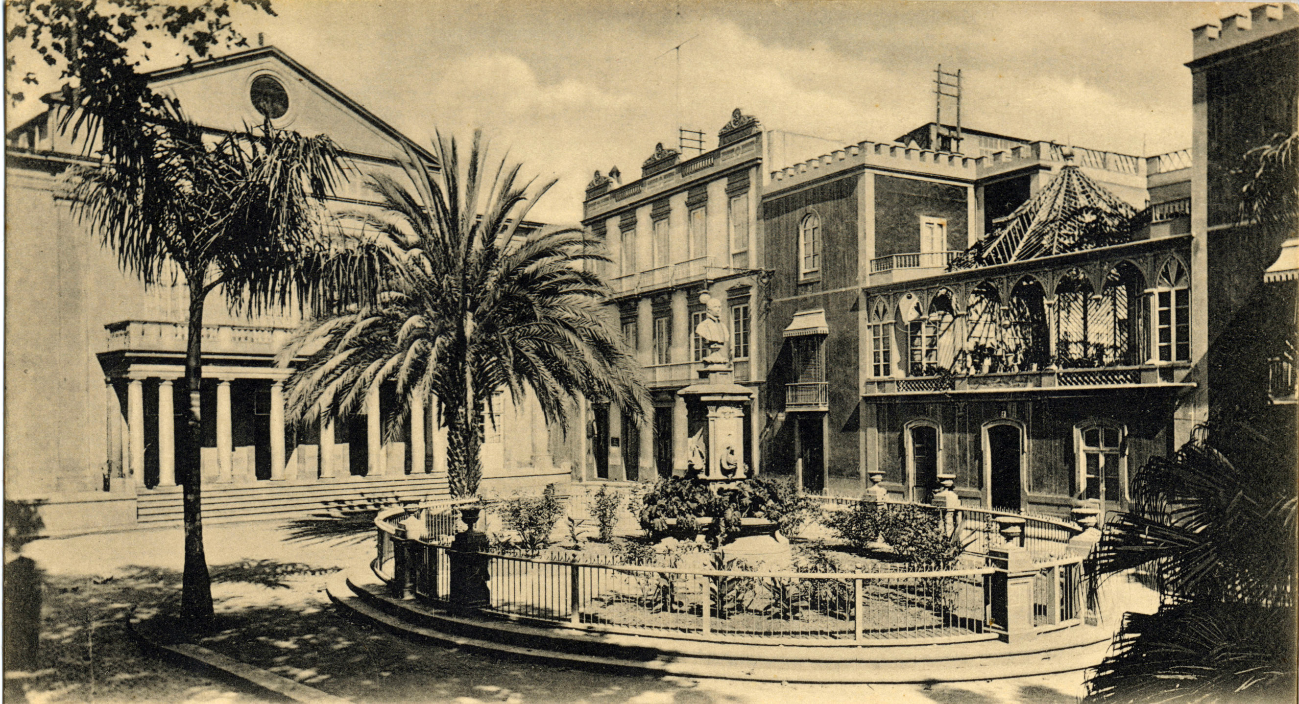 Cairasco Square & Old Theater in 1890. Las Palmas de Gran Canaria, Canary Islands.